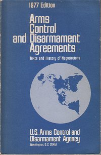 Cover of the 1977 Edition of Arms Control and Disarmament Agrements, a publication of the U.S. Arms Control and Disarmament Agency.